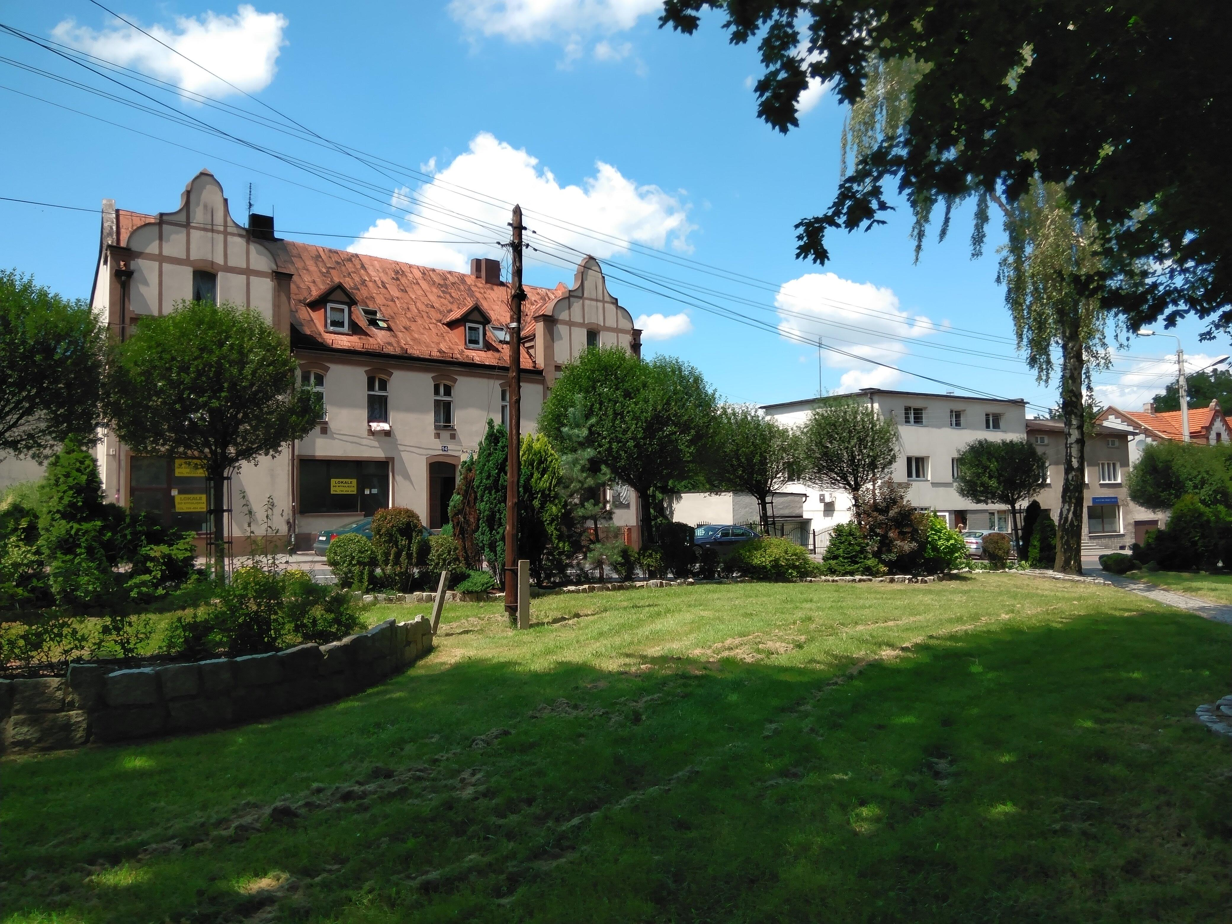 Hvidovre park in Rydułtowy, Upper Silesia, Poland